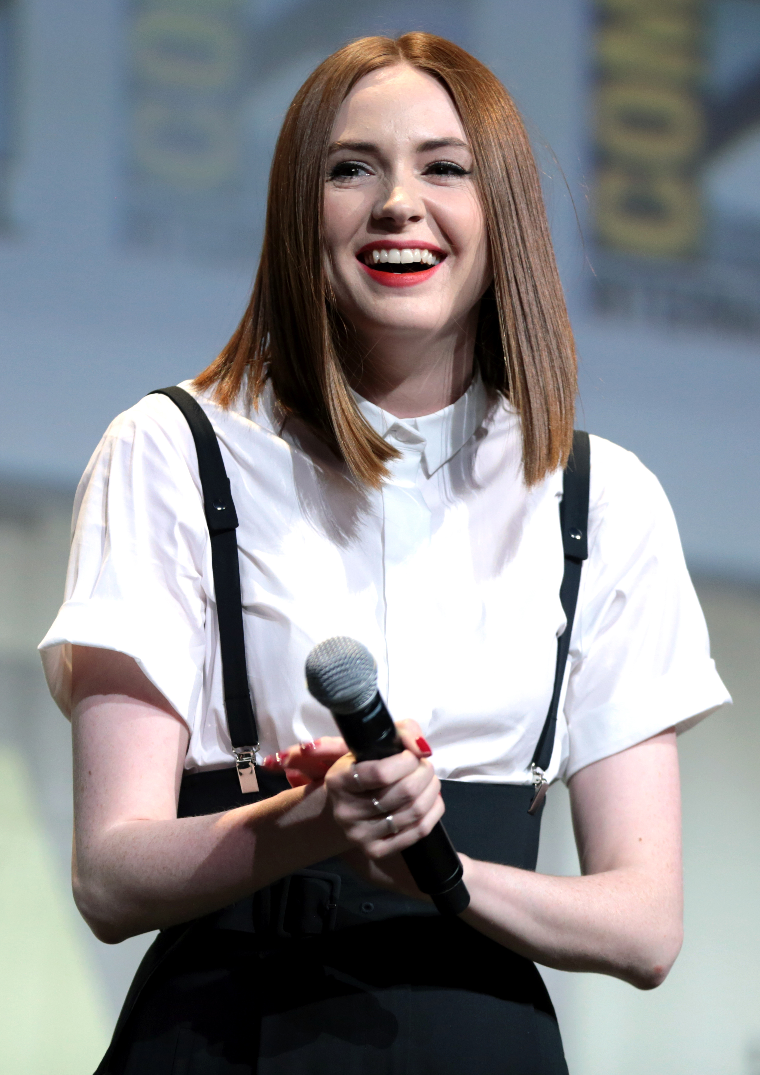 Karen Gillan speaking at the 2016 San Diego Comic-Con International in San Diego, California.